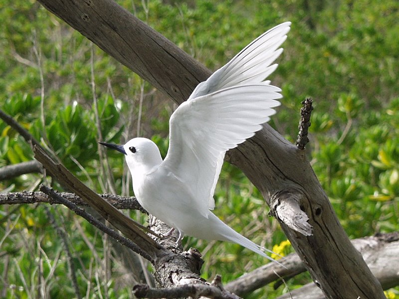 White Tern (a.k.a. 'Fairy Tern') photographed on Midway Island on April 6, 2001 by me, Gary B. Edstrom, and released to the public domain. These birds are very territorial and will swoop down and try to scare away intruders, even hitting them on the head. They do not build nests and simply lay their egg on a bare branch of a tree.